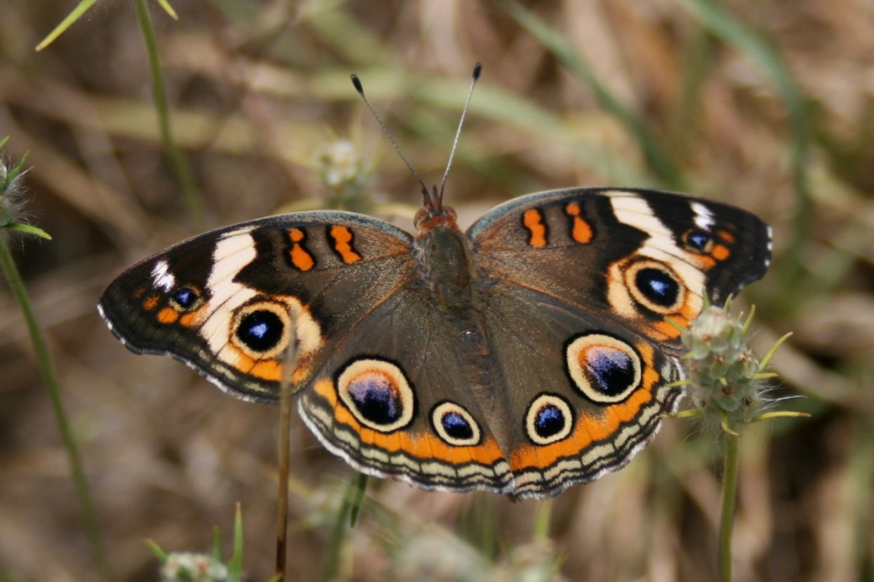 Common Buckeye (Junonia coenia) butterfly. Photographed in Union, South Carolina.